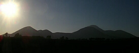 Maribios, Nicaragua